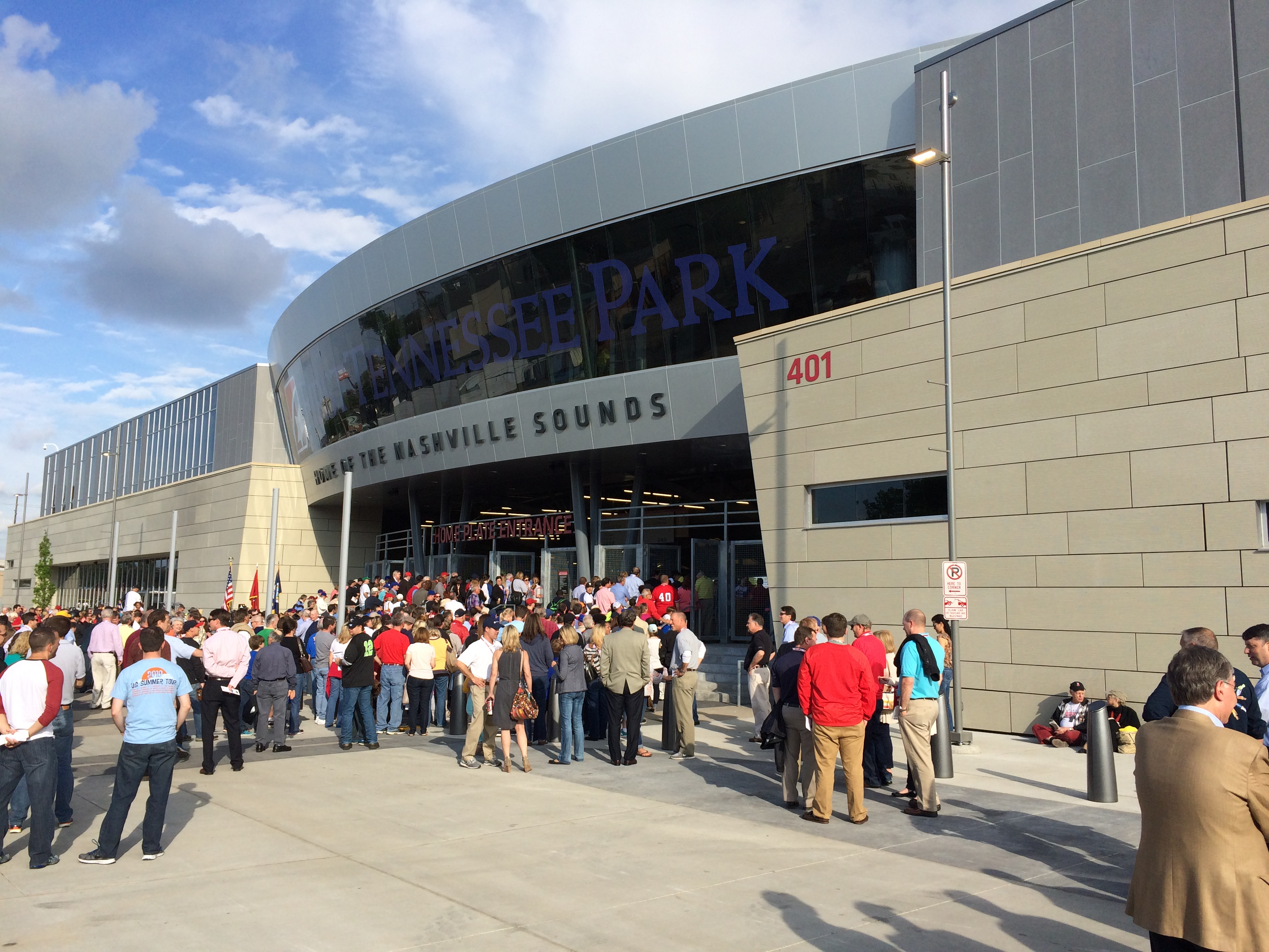 The home plate entrance at First Tennessee Park on April 17, 2015, the park's inaugural game